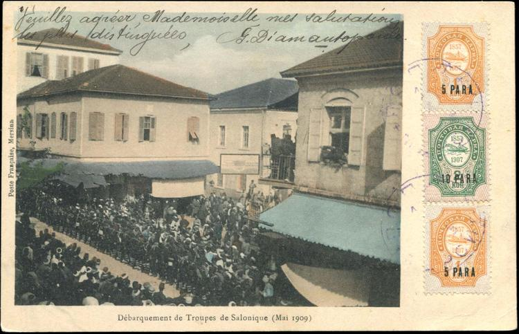 Postcard: "Disembarkation of the troops of Salonika [Thessaloniki] (May 1909)"